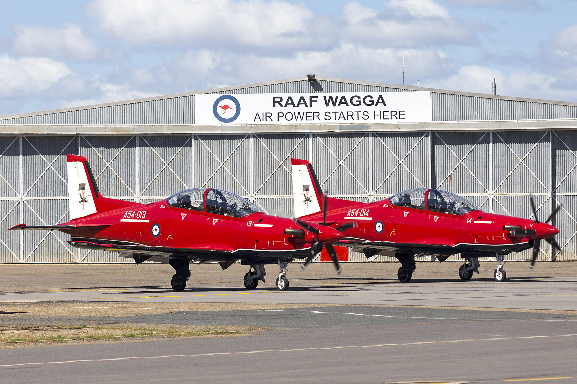 Royal Australian Air Force (A54-013 and A54-014) Pilatus PC-21 at Wagga Wagga Airport.